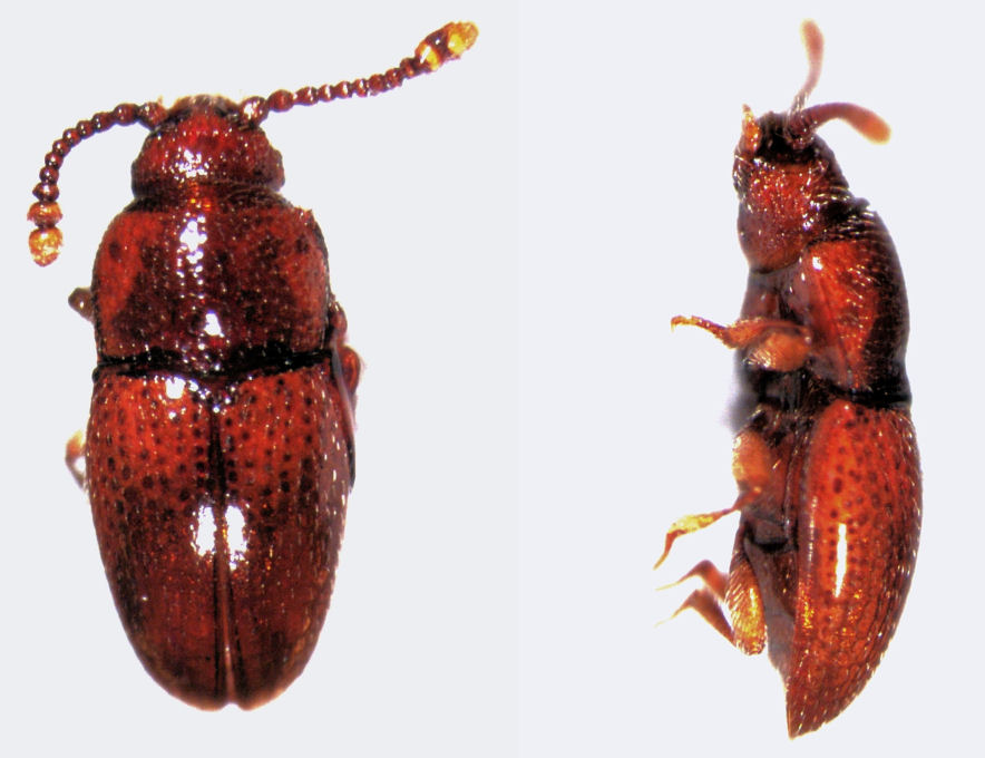 adult Thortus n.sp. (eyes minute). Maungatautari, MauRes, F:-; P:- (3363ha) #W651-012 (38°0′0″S 175°58′0″E / 38°S 175.966667°E), Edge dist 34.7m (9.2m offset), 33 cm diam litter: 72hr Berlese. Waikato, New Zealand, 19-Feb-08, RK Didham.